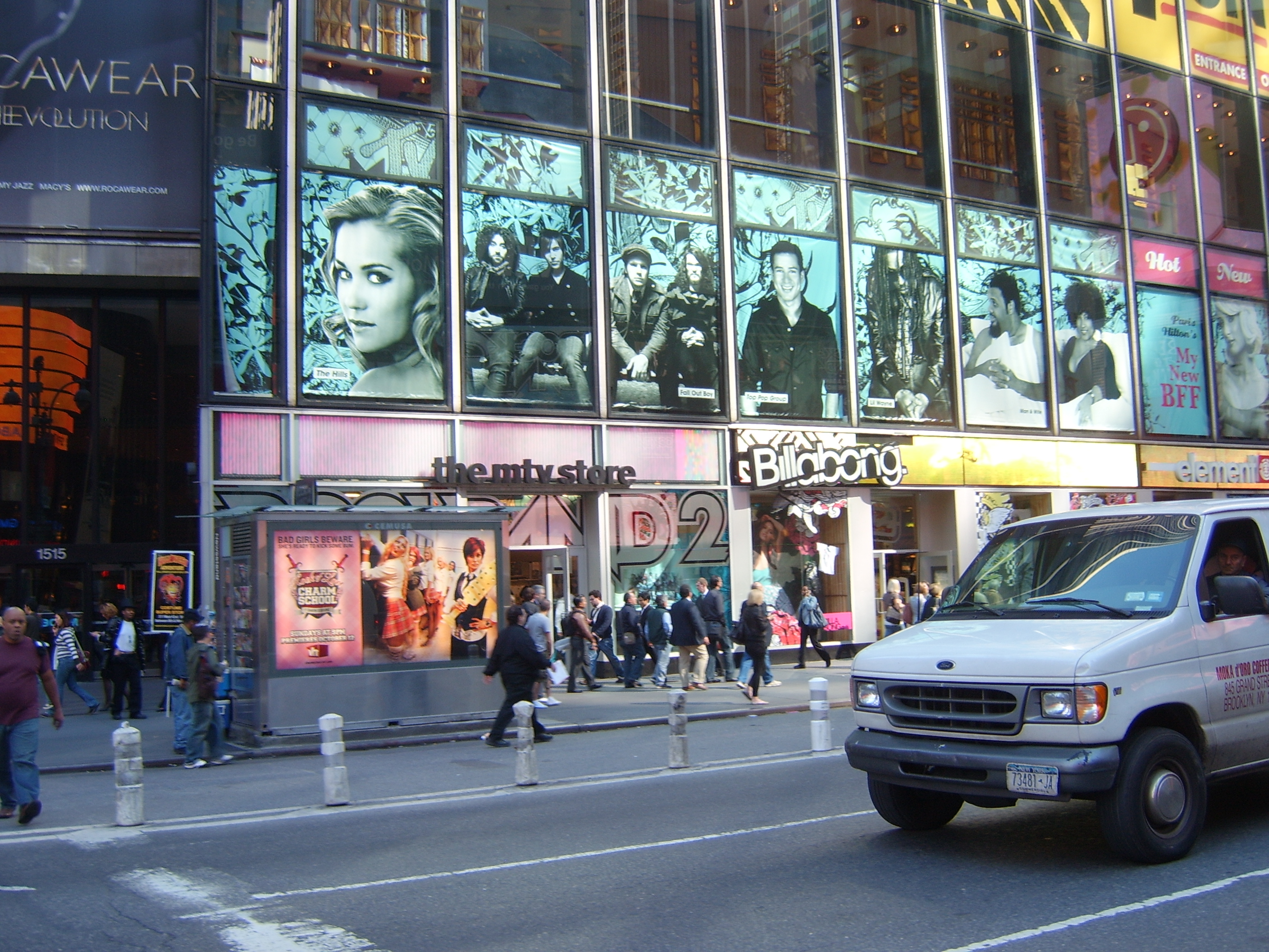 Looking west at MTV Store of MTV Networks, Manhattan, New York City